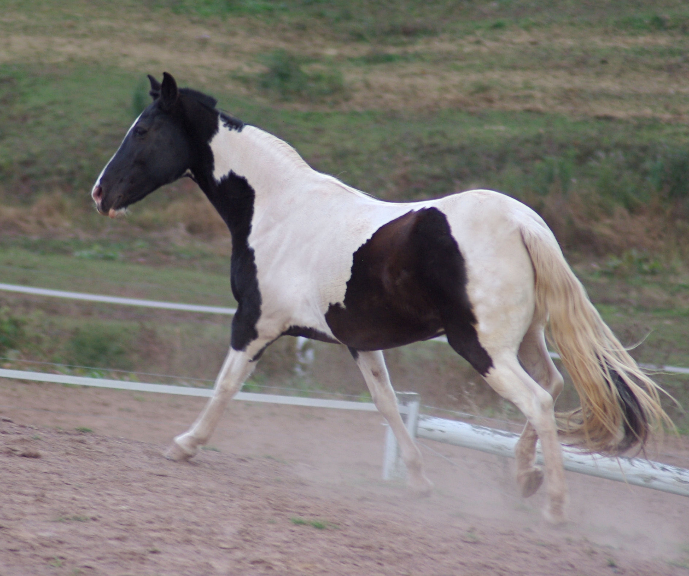 paint or pinto horse trotting